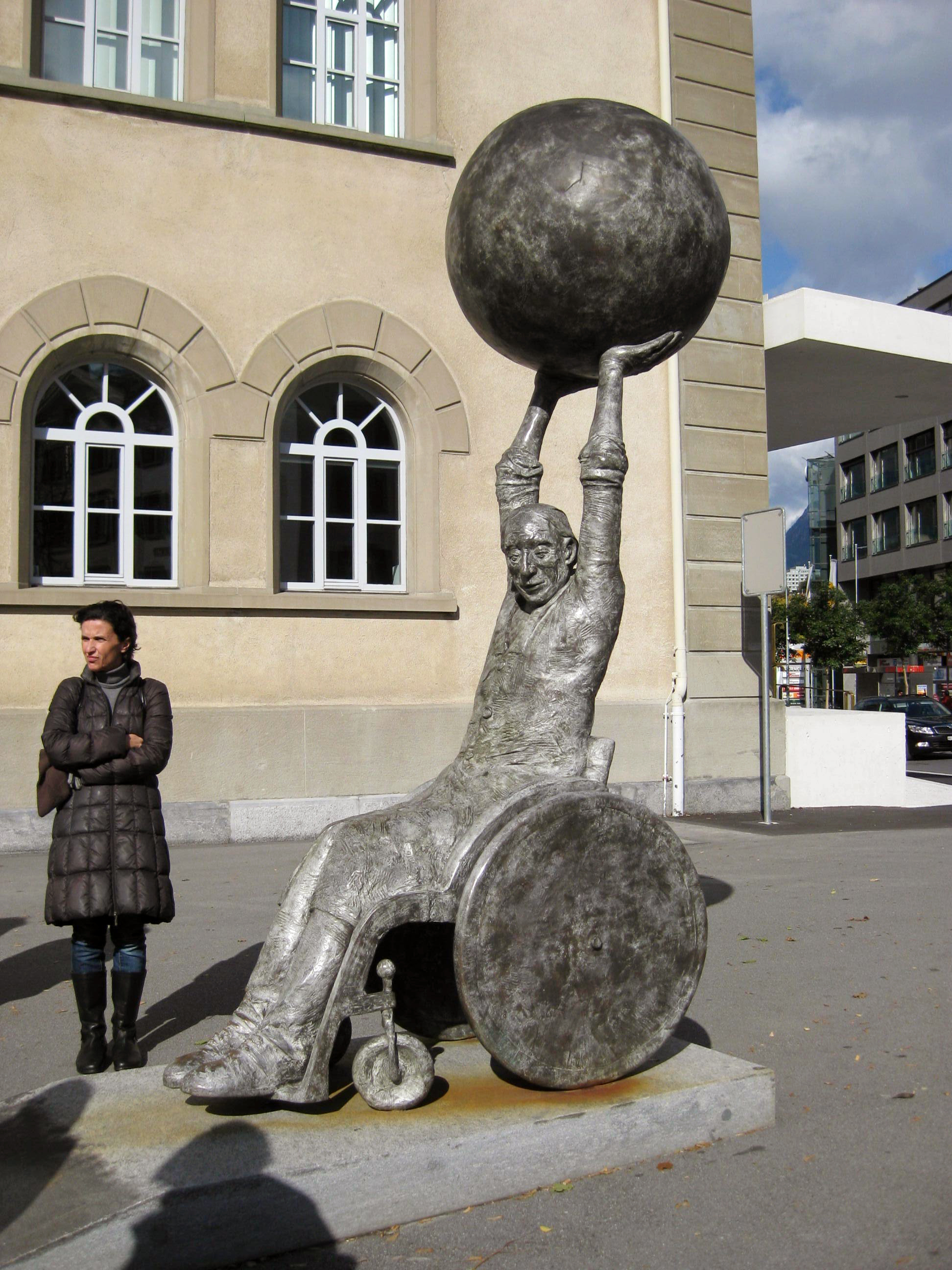 Robert Indermaur, "Einwurf zum Spiel", 2007, - Switzerland, Graubuenden, Chur, theaterplace